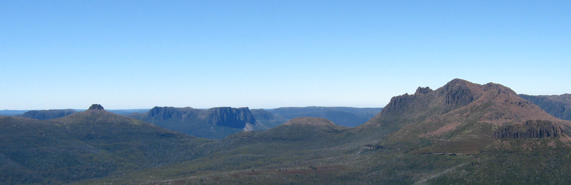 Mount Pelion East and Cathedral Mountain as seen from Mount Pelion West